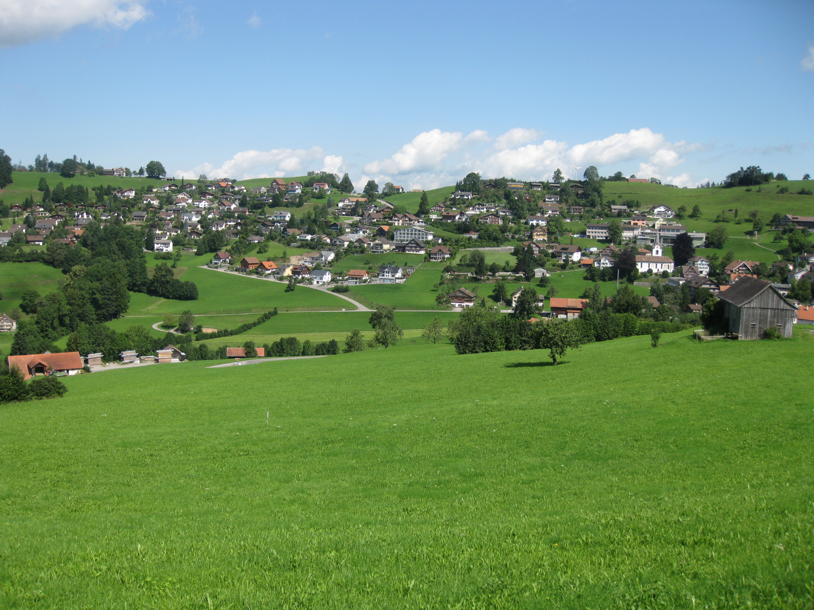 View from "Grund" to the village Oberhelfenschwil